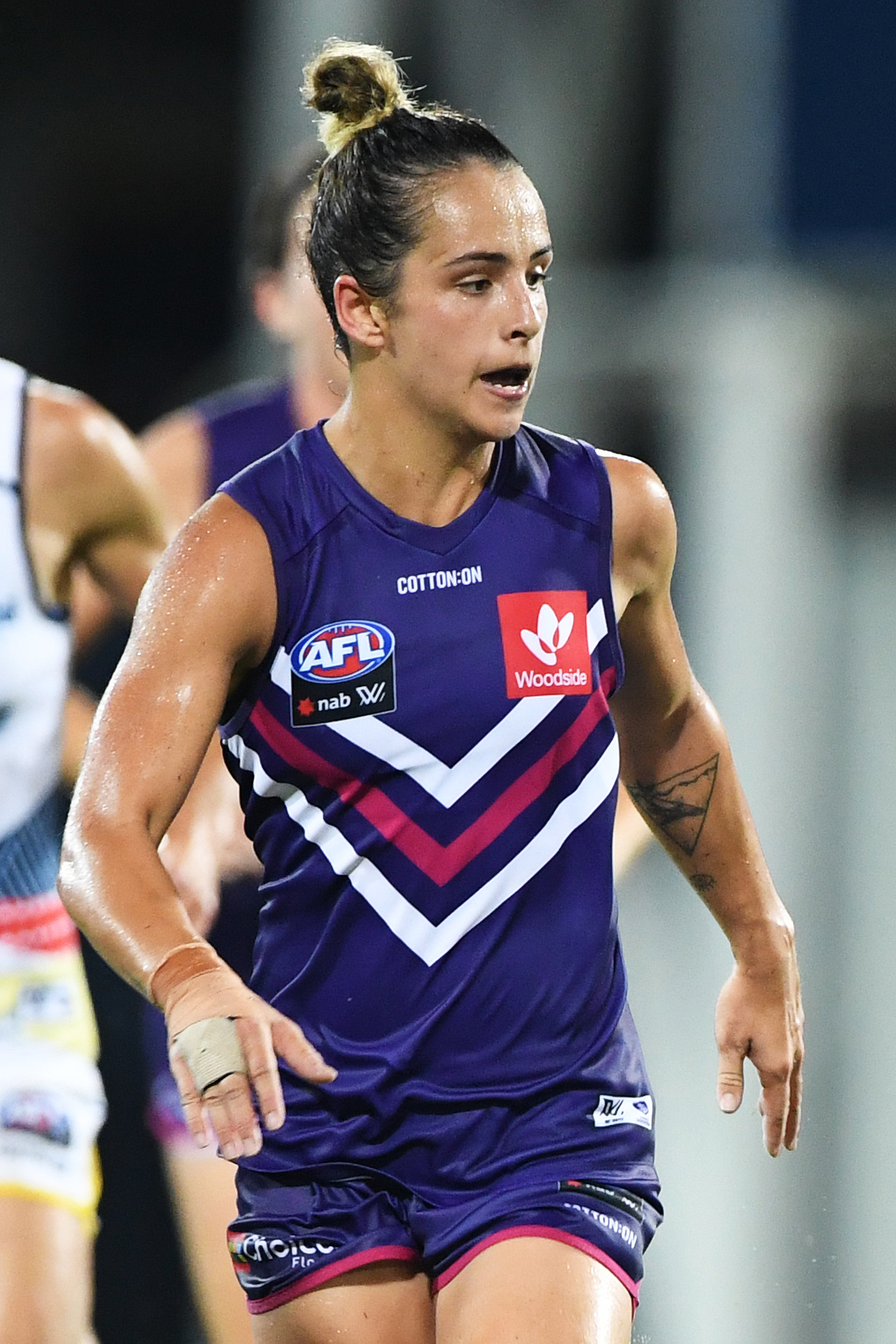 Angelique Stannett of Fremantle during the 2019 AFL Women's practice match between the Adelaide Football Club and Fremantle Football Club at TIO Stadium on January 19, 2019 in Darwin Australia.